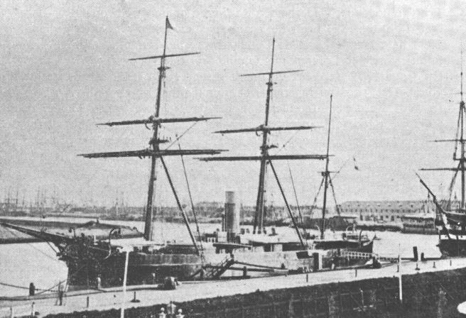 Dutch Ironclad Prins Hendrik der Nederlanden, launched 1866, serving 1867-1931.